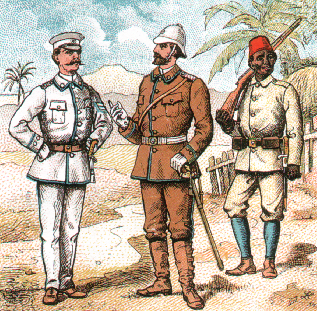 German Kolonial-Army (Deutsche Schutztruppe) for East-Africa